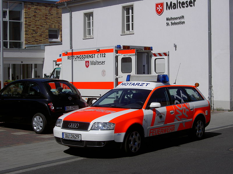 emergency for an ambulance and a doctor ambulance in Duisburg